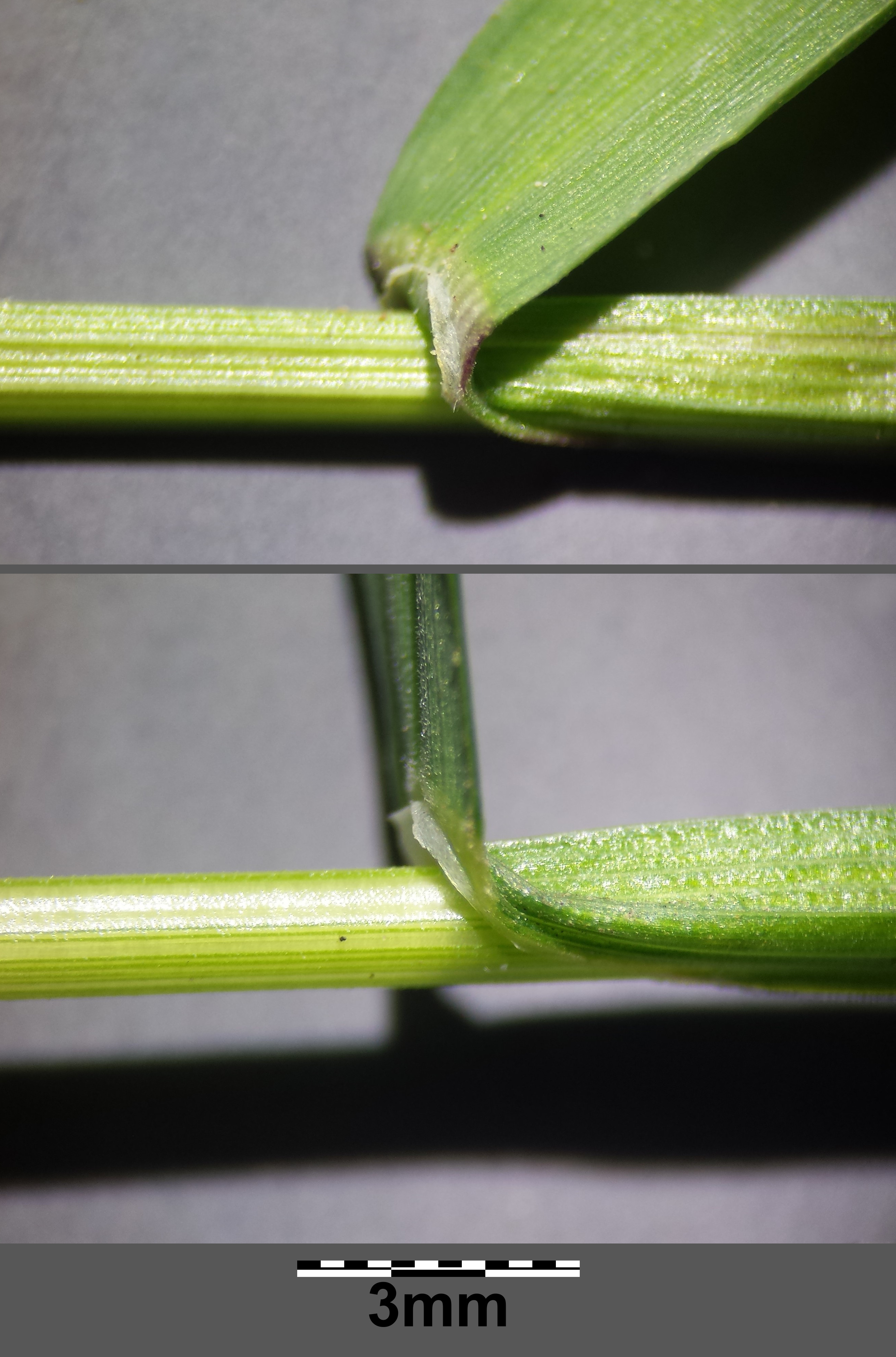 Stipe with leaf Taxonym: Melica nutans ss Fischer et al. EfÖLS 2008 ISBN 978-3-85474-187-9 Location: Rohrwald, district Korneuburg, Lower Austria - ca. 275 m a.s.l. Habitat: deciduous forest